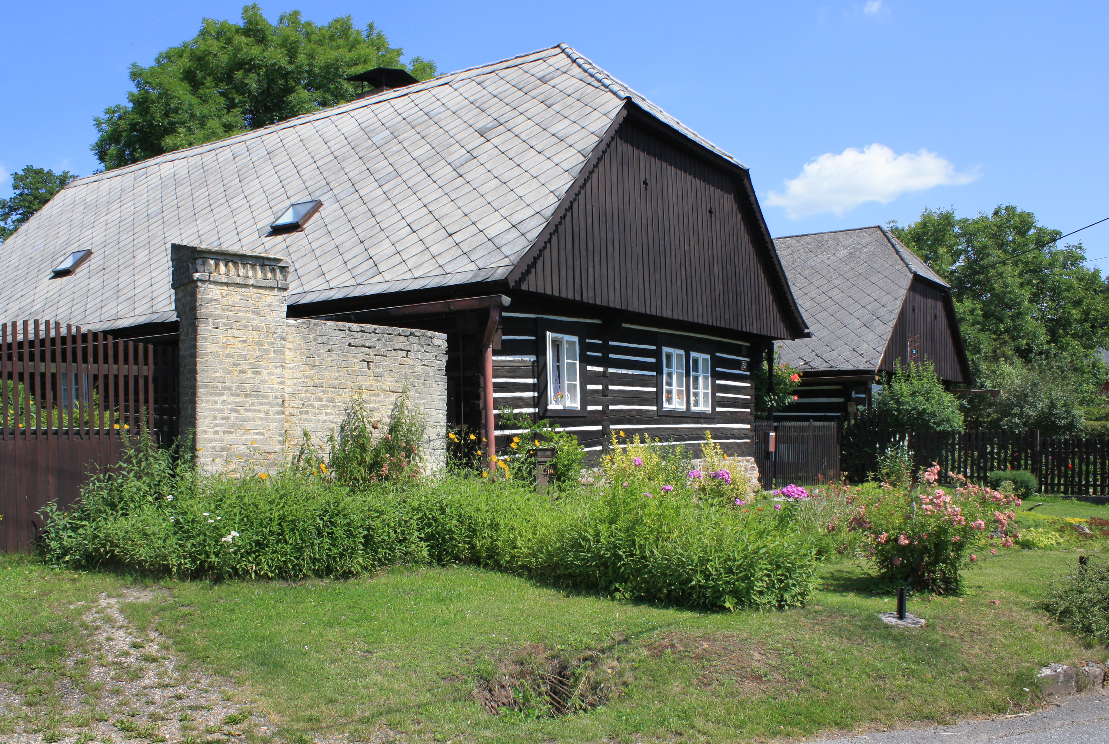 Old houses in Strašice, Czech Republic